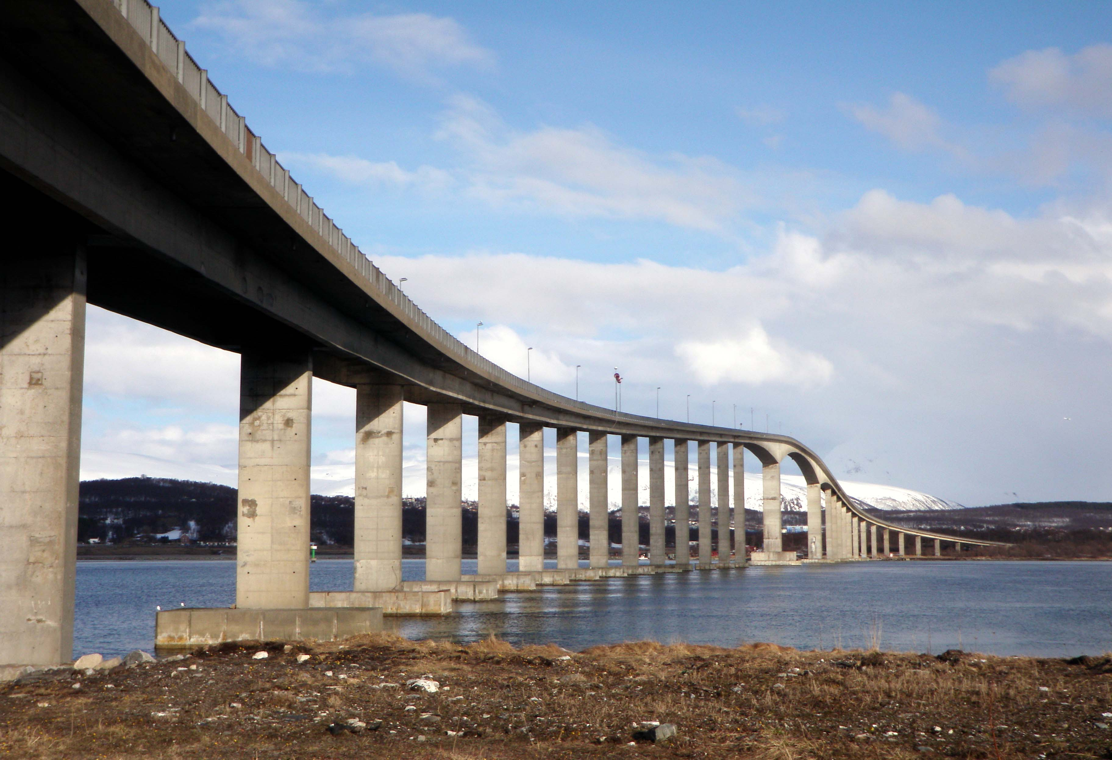 Sandnessund Bridge in Tromsø, Troms, Norway. View from the southern side of the bridge on the Kvaløya side.